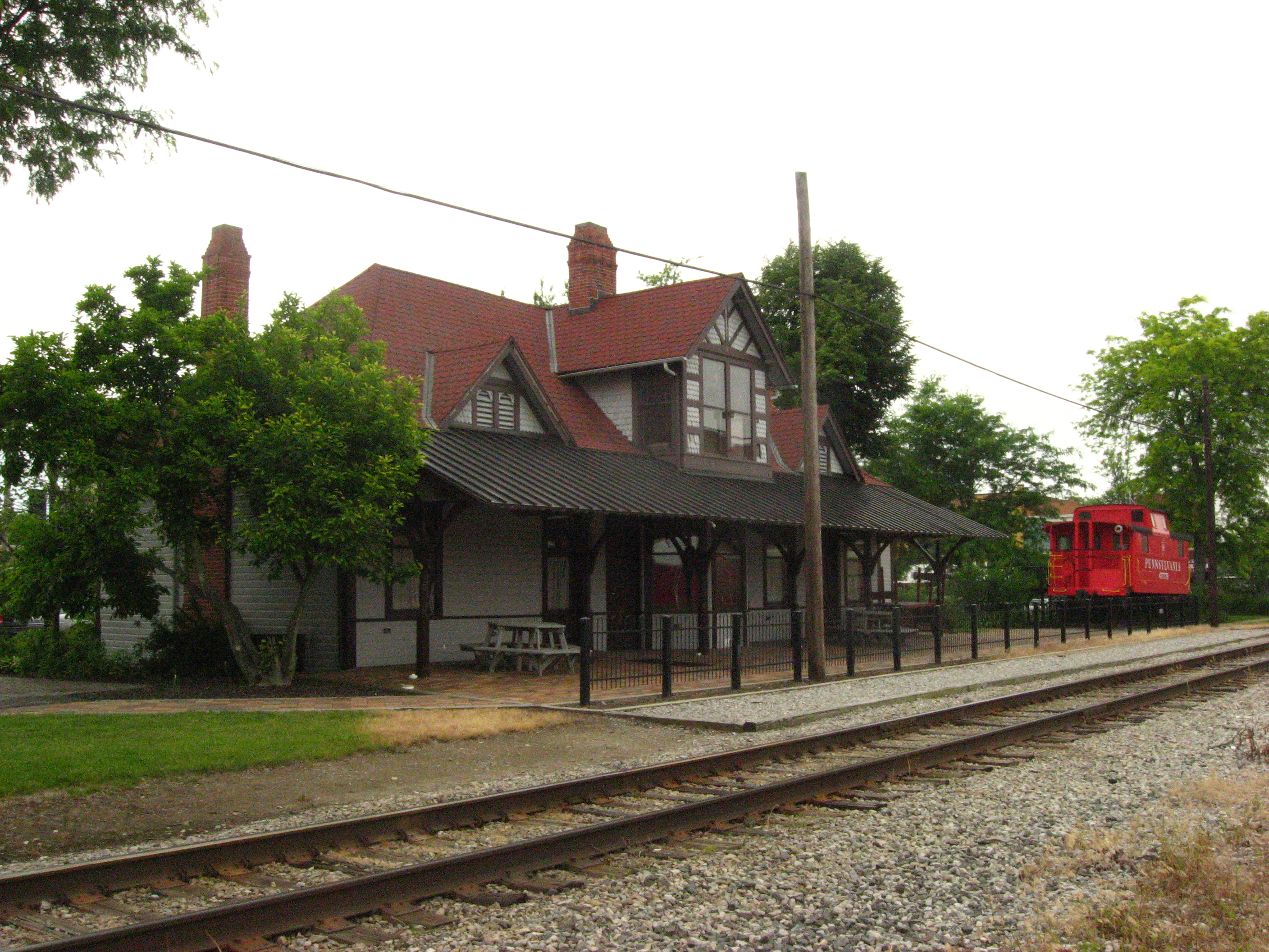 Railroad (northern) side of the Ada Pennsylvania Station and Railroad Park, located as 112 E. Central Avenue in downtown Ada, Ohio, United States. The caboose is Pennsylvania Railroad #477779. Built in 1887, it is listed on the National Register of Historic Places.